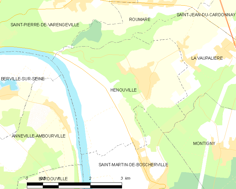 Map of French municipality Hénouville